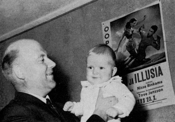 Photograph of the Finnish composer Ahti Sonninen (1914–1984) with his youngest son Tapani.